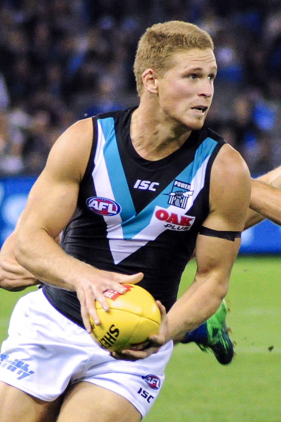 Tom Clurey during the AFL round six match between North Melbourne and Port Adelaide on Saturday, 28 April 2018 at Etihad Stadium in Melbourne, Victoria.